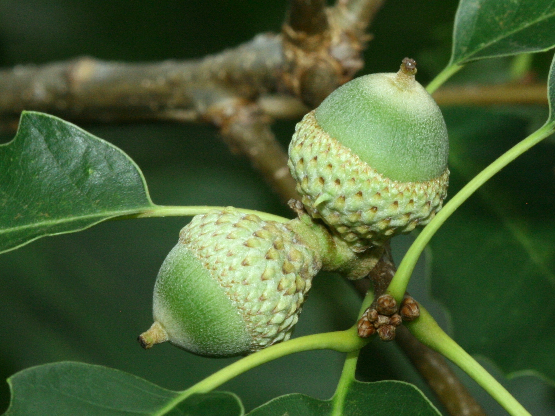 Quercus muehlenbergii, Arboretum in Brno, Czech Republic